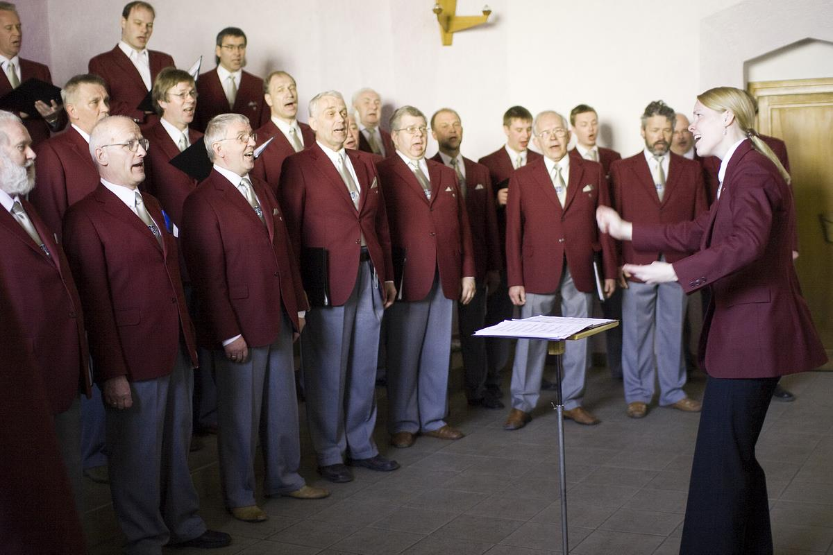 Estonian male choir of engineers Inseneride Meeskoor singing in the Blue House in Prague.